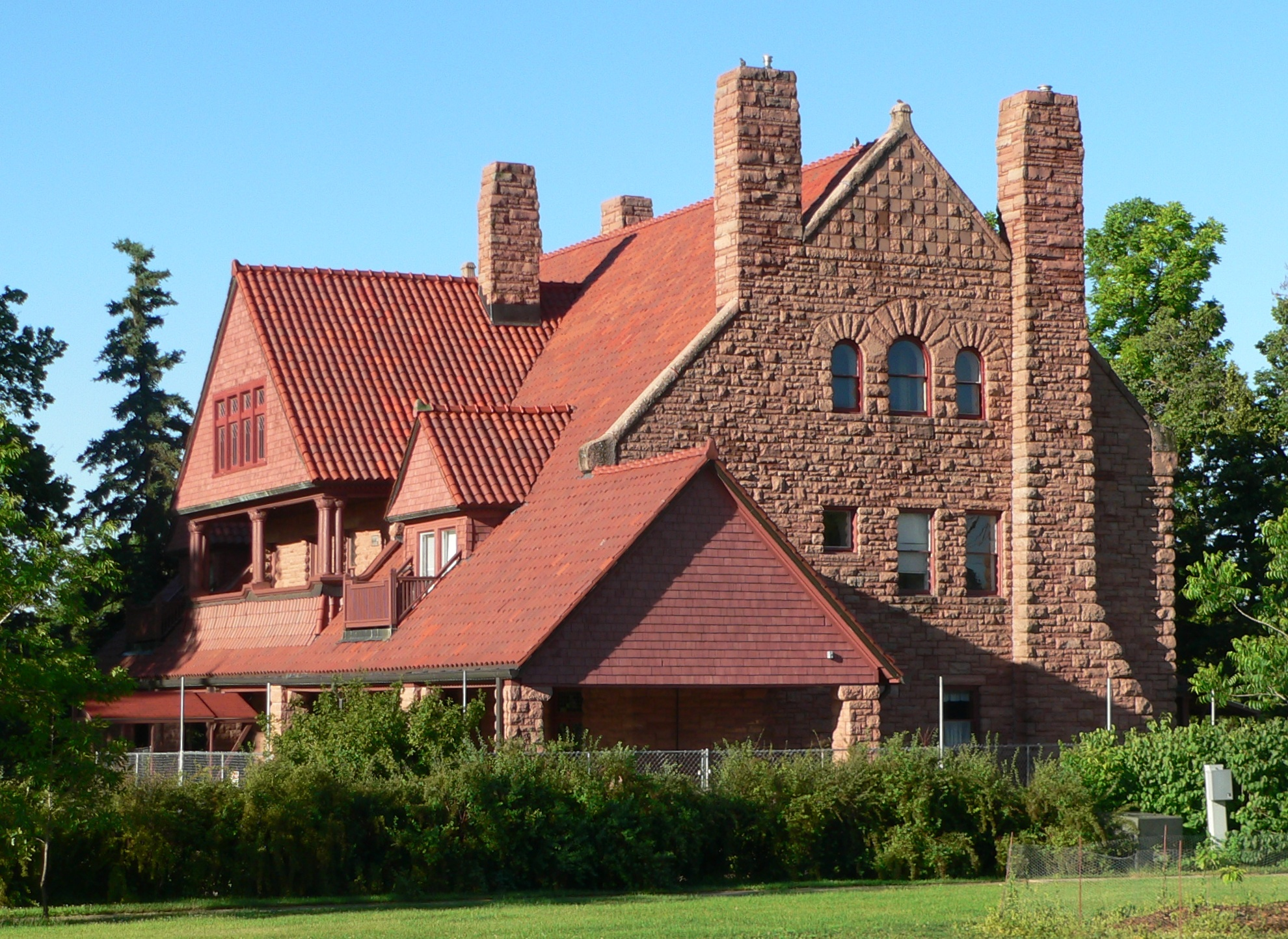 George W. Frank House, on the campus of the University of Nebraska at Kearney; seen from the northeast. Built in 1889, the house combines Richardsonian Romanesque and Shingle Style architecture. It is listed in the National Register of Historic Places. The university now operates the house as a museum.